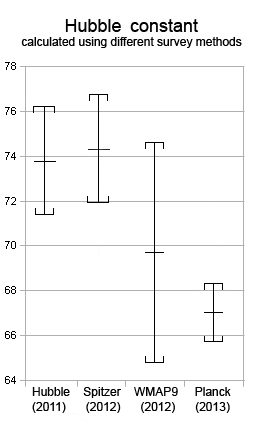 Updated version of this image by Alexander.stohr to include the Planck data. All information comes from arXiv:1303.5062